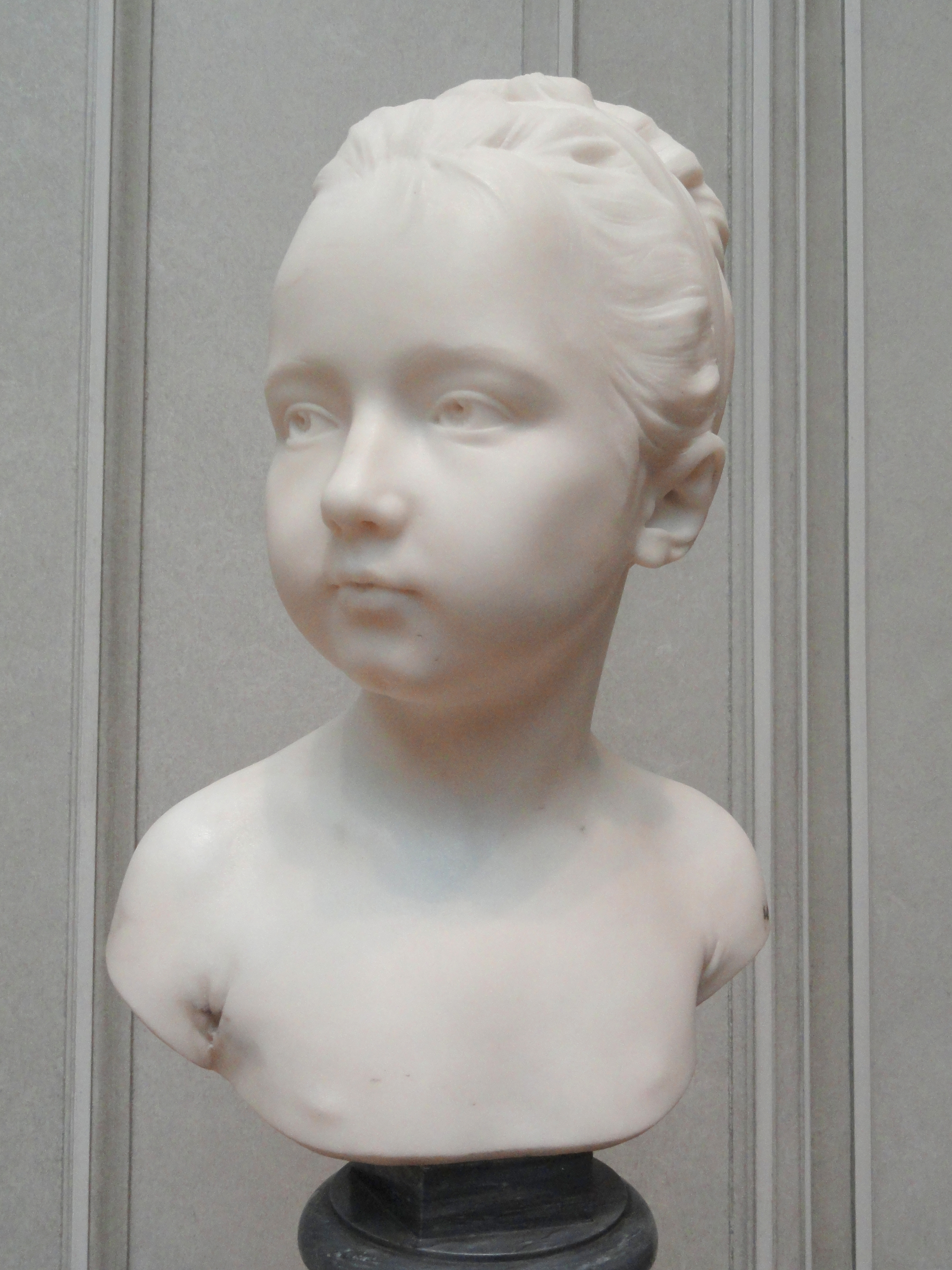 Louise Brongniart by Jean-Antoine Houdon, 1777, marble - National Gallery of Art, Washington, DC, USA. This work is in the public domain because the artist died more than 70 years ago.